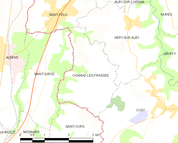 Map of French municipality Chainaz-les-Frasses